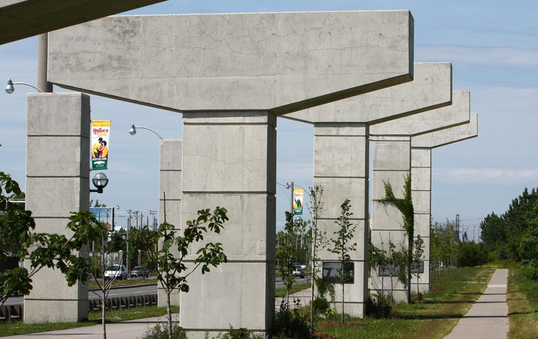 Former pillars of the Gardiner Expressway along Lake Shore Boulevard East, Toronto, Ontario, Canada. This portion of the expressway was dismantled in 2001, with some of the pillars being left in situ as public art sculptures.